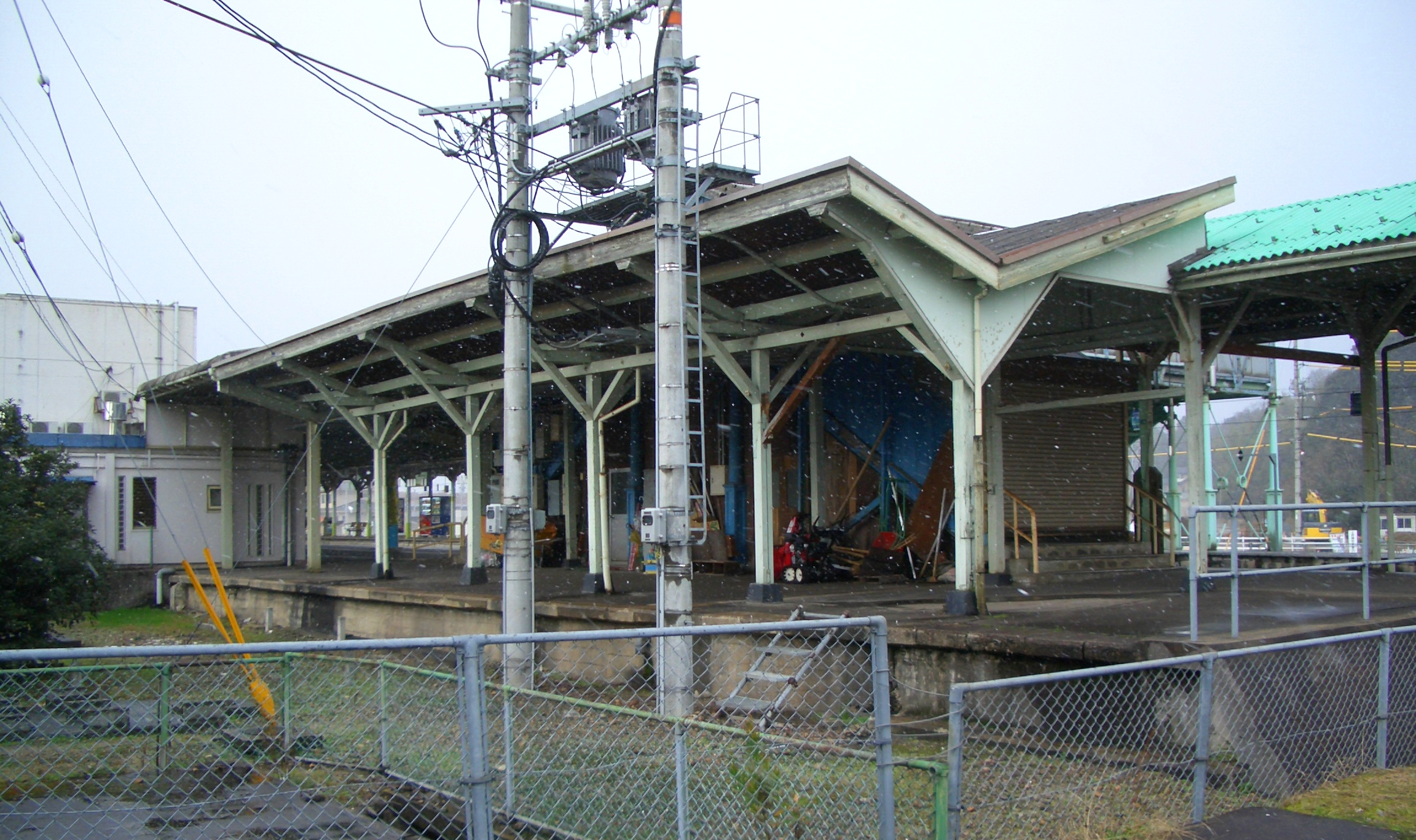 Kurayoshi Station old platform 5 for Kurayoshi Line (Kurayoshi, Tottori Prefecture, Japan)